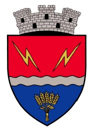 Coat of arms of Turceni township, Gorj County, Romania